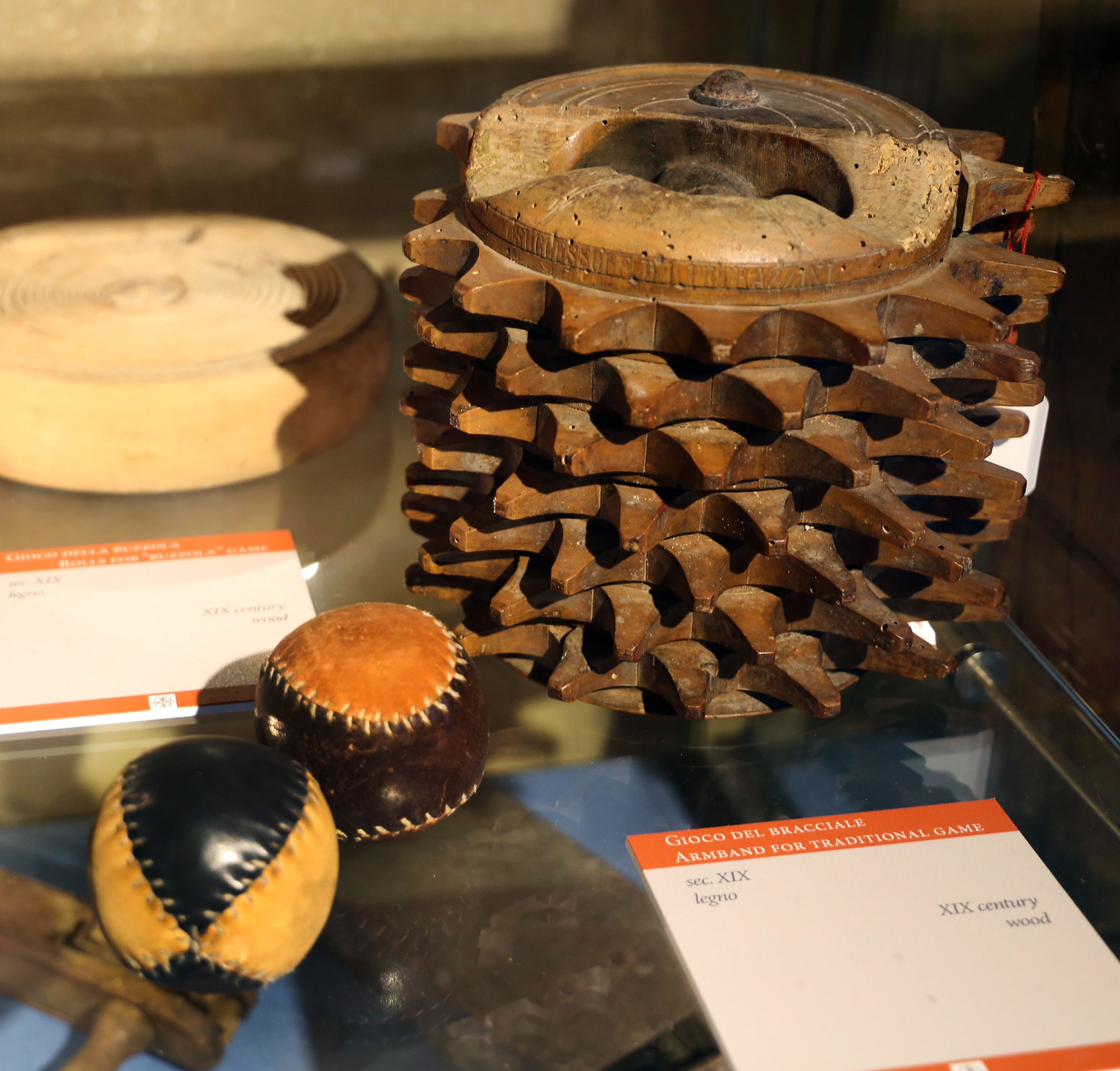 Collections of the Museo di Palazzo Taglieschi